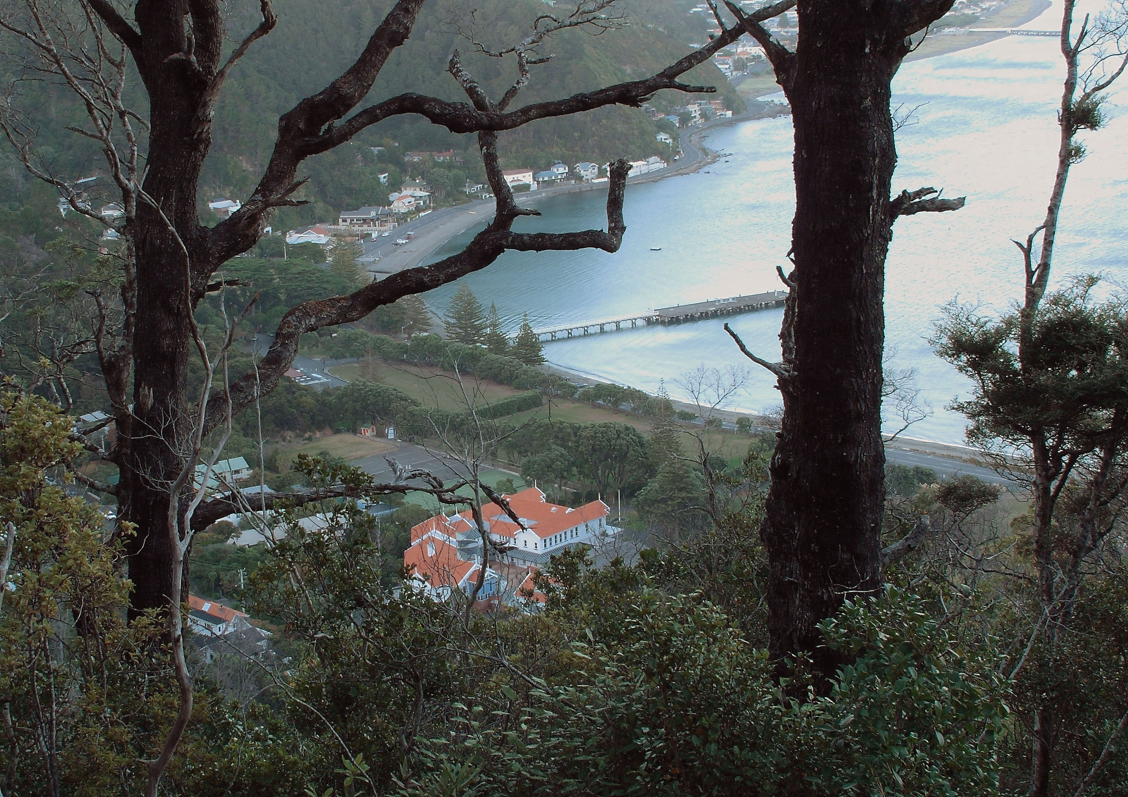 Wellesley College in Day's Bay, Wellington. Viewed from the Ferry Road walking track early on an April morning.